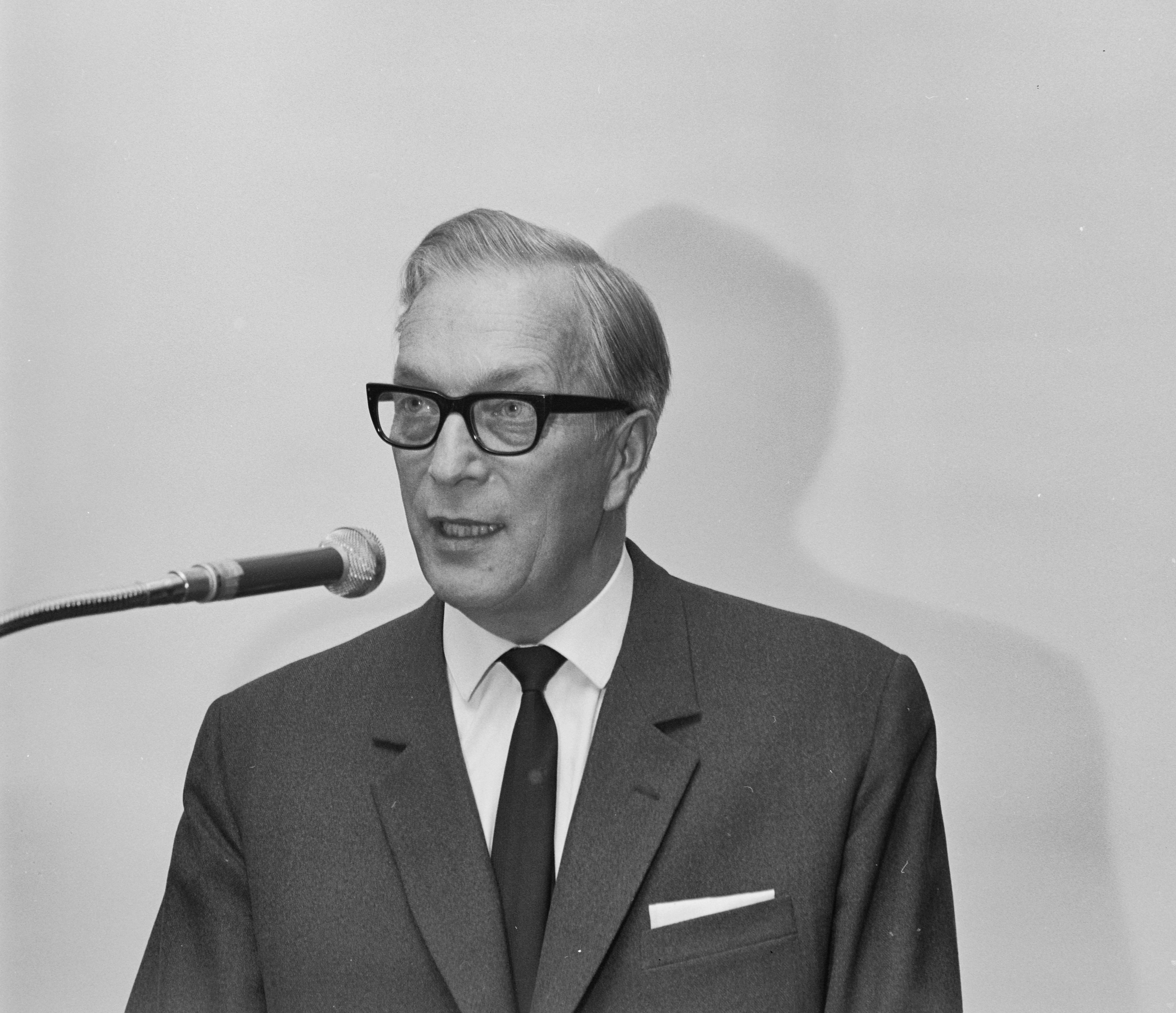 Photograph of the Finnish business executive Martti Hovi (1915–2009).